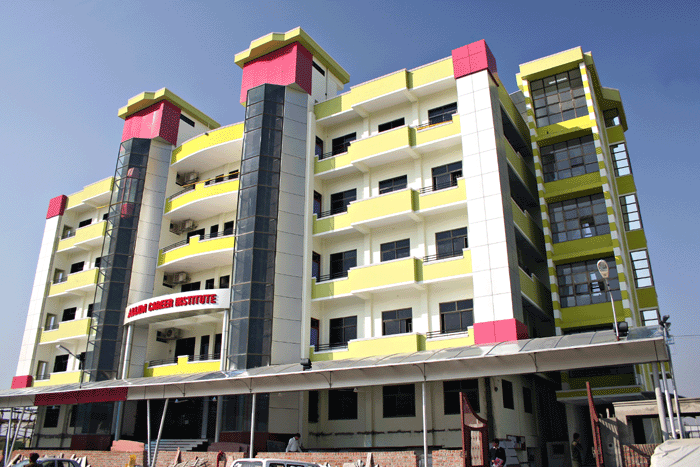 "SANKALP" CP-6, Indra Vihar KOTA-324005 (Rajasthan) India